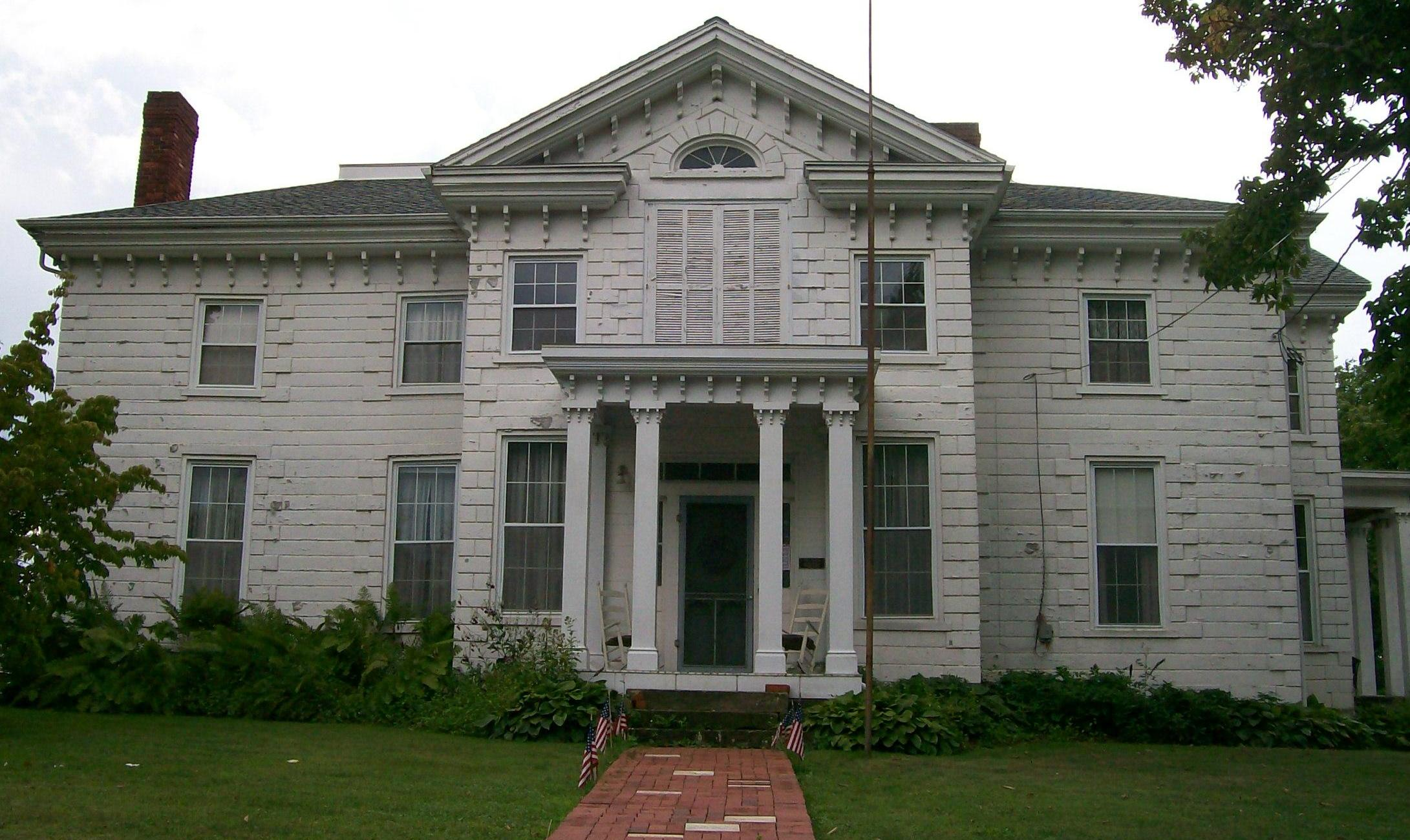 Front of the Hollister-Parry House, located at 217 Eastern Avenue (State Route 78 in Woodsfield, Ohio, United States. Built in 1859, it is listed on the National Register of Historic Places.